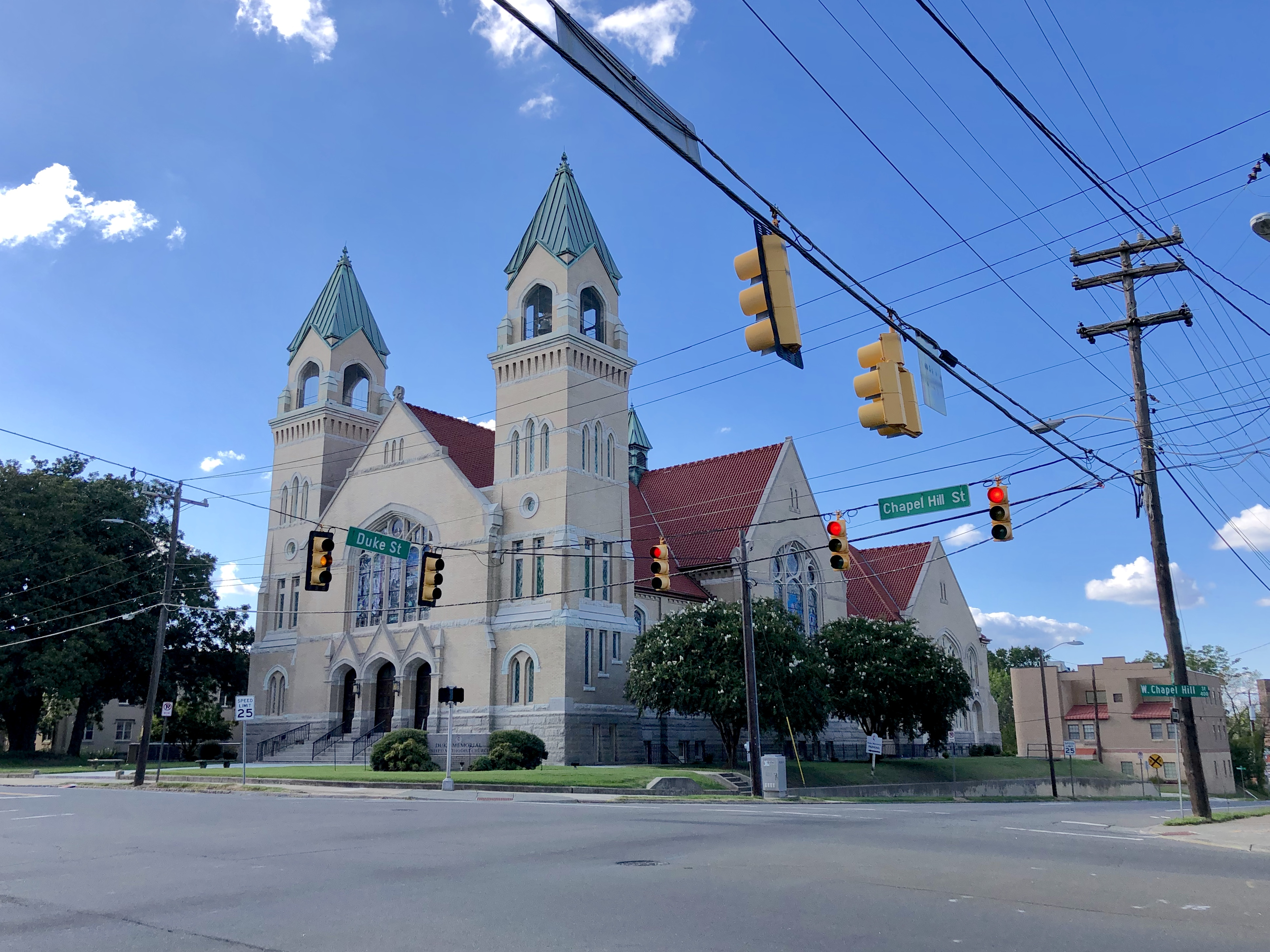 This is the Duke Memorial United Methodist Church, located on West Chapel Hill Street in Durham, North Carolina. It was constructed in 1907 and listed on the National Register of Historic Places in 1985.